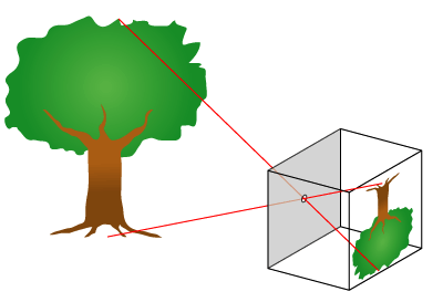 How a pinhole camera works.